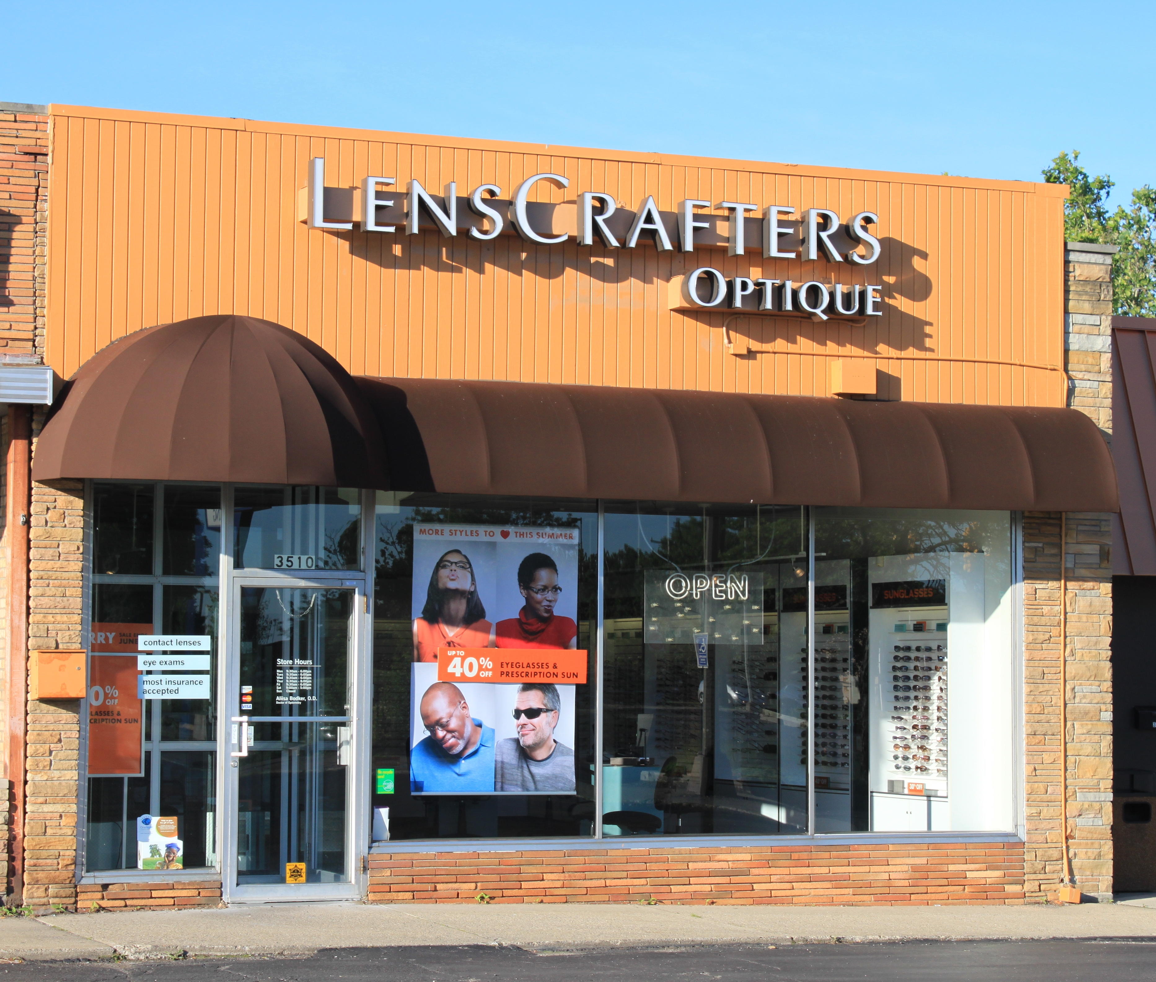 LensCrafters Optique store, 3510 Washtenaw Ave., Ann Arbor, Michigan